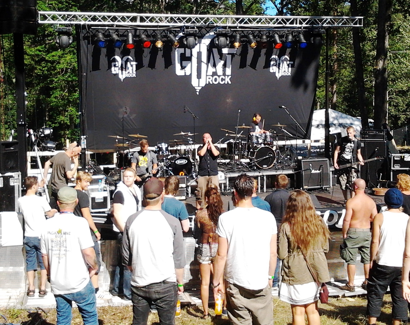 Goat Rock festival 2012 - Rockebandet Ændal